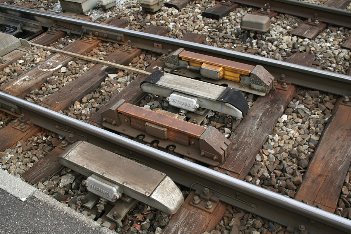 Trackside magnets used for automatic train protection. Outside and middle of track: Signum, other two (yellow) magnets: ZUB-121